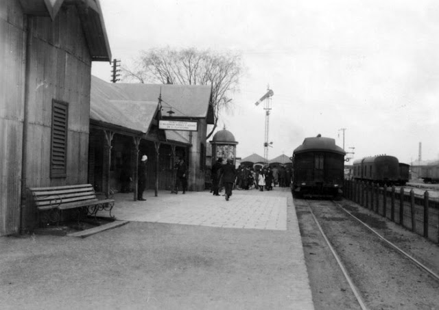 The Bahía Blanca station of BB& North Western Railway. It was the first railway to reach Argentine province of La Pampa.